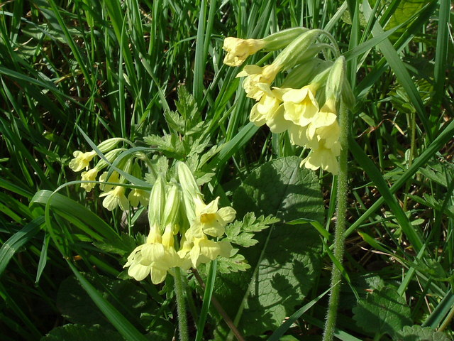 Essex Oxlip These Oxlips were photographed growing at the side of a lane close to Hempstead Woods in Essex. Oxlips rarely grow outside East Anglia. They are members of the Primula family and often confused with cowslips. Cowslips however are far more widespread.